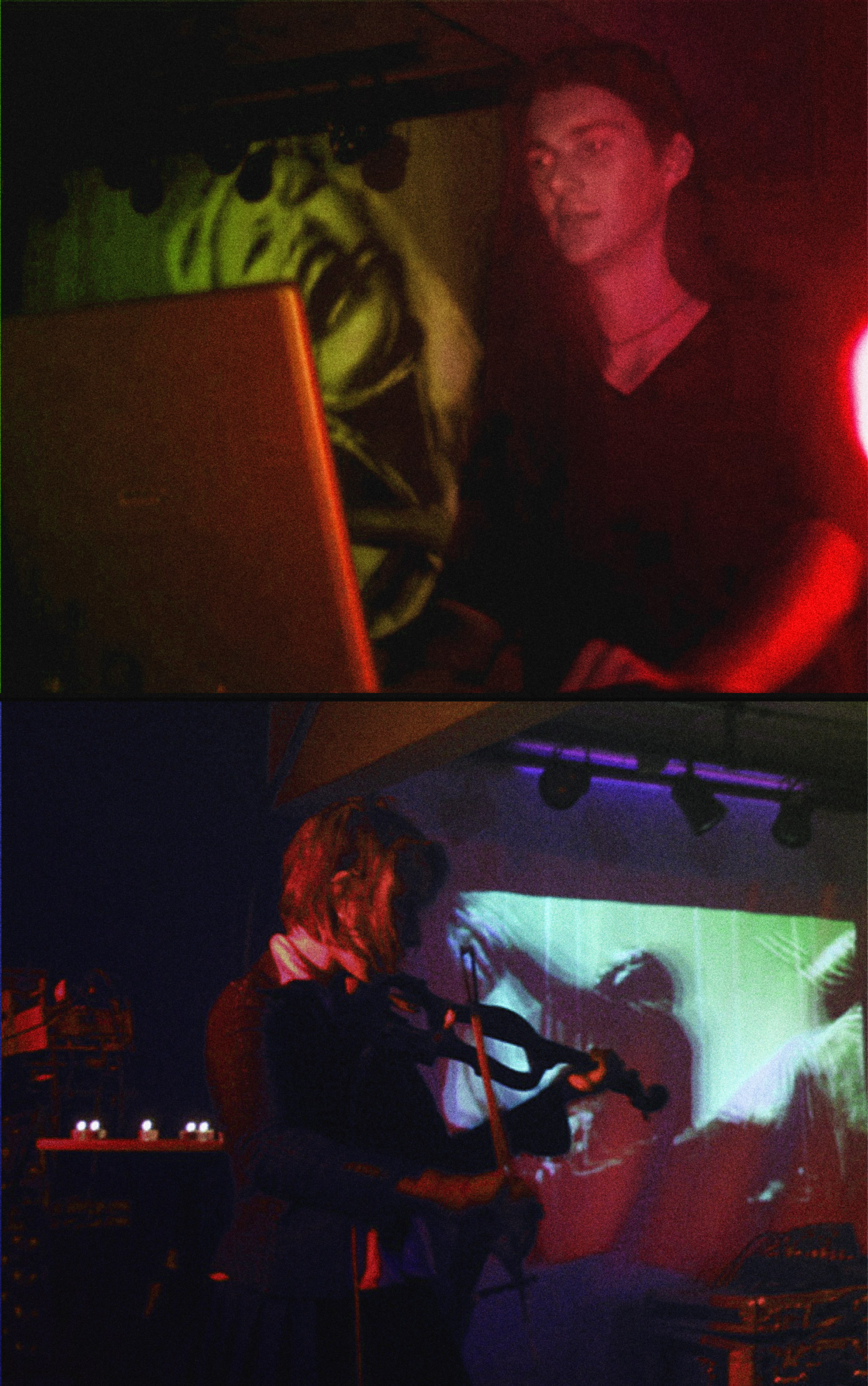 Martin Hoefer, Bannkreis-Harmagedon, Live in Jena, Performance 2004